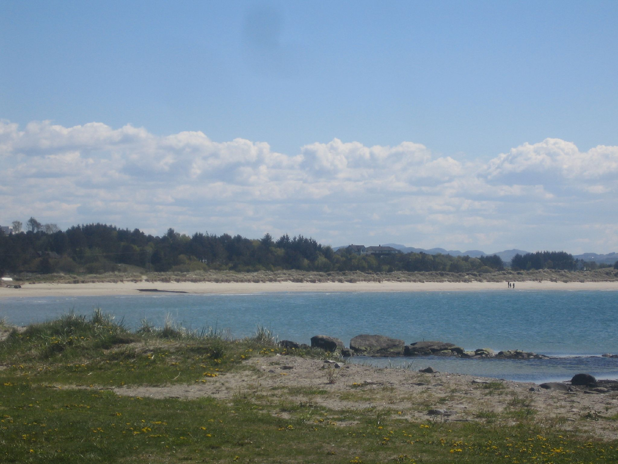 Beach of Sola municipality in Rogaland, Norway.